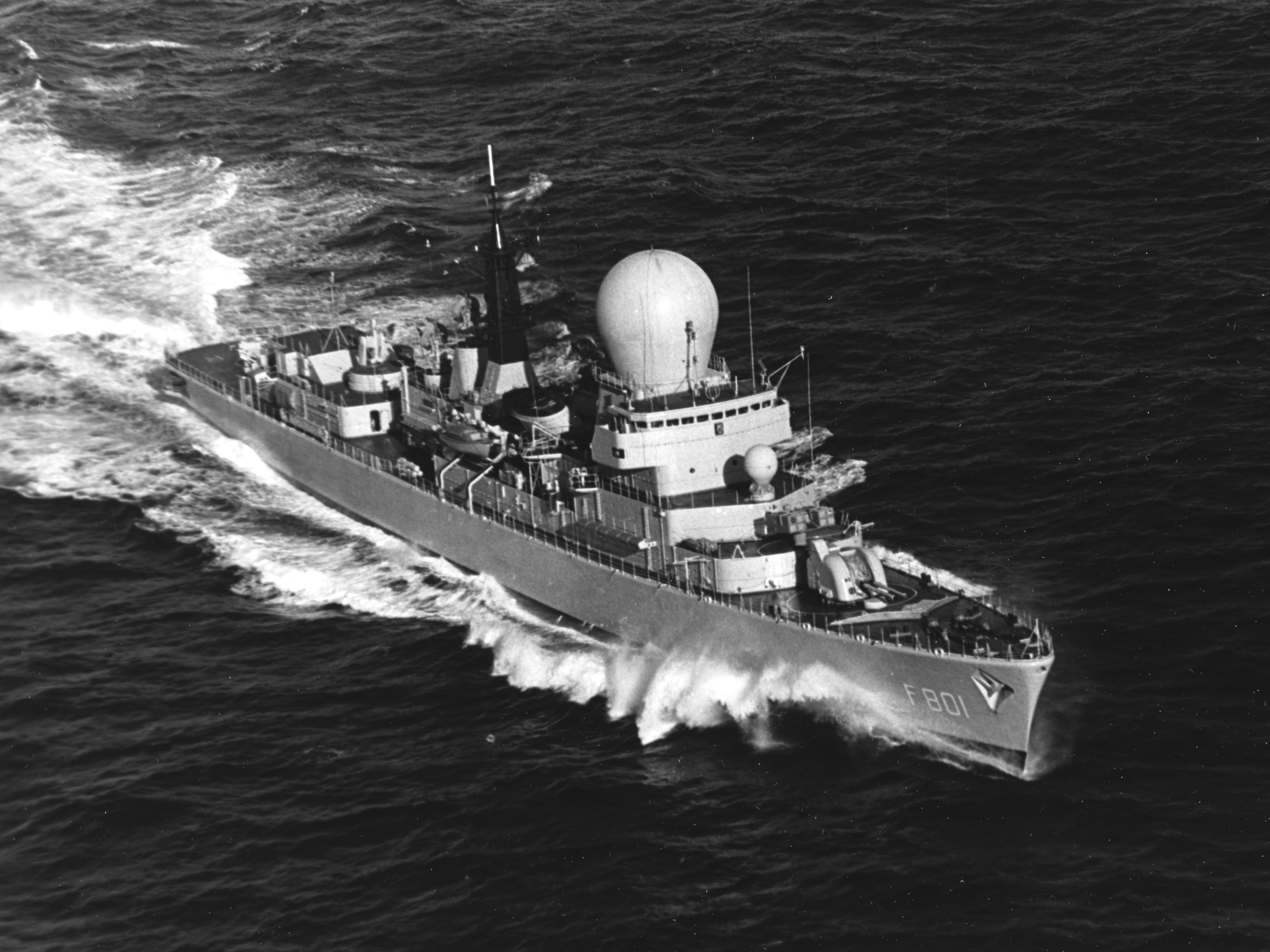 The Royal Dutch Navy frigate Hr.Ms. Tromp (F801) operating with the NATO Standing Naval Force Atlantic in February 1978.